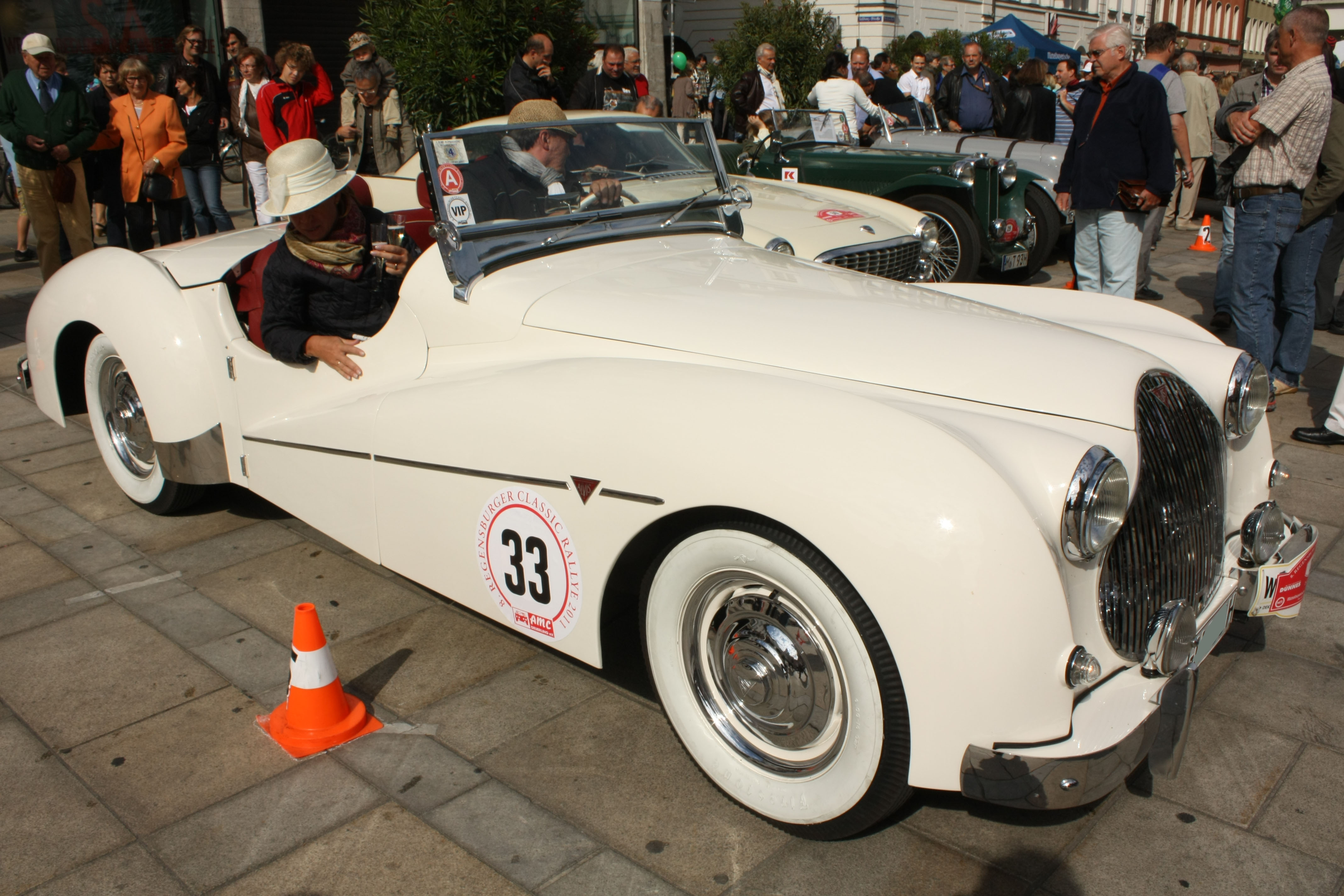 1949 Alvis TB 14